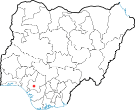 Benin City, Nigeria Location Map Adapted from Locator Map Aba-Nigeria.png which was made by User:Civvi at Wikimedia Commons